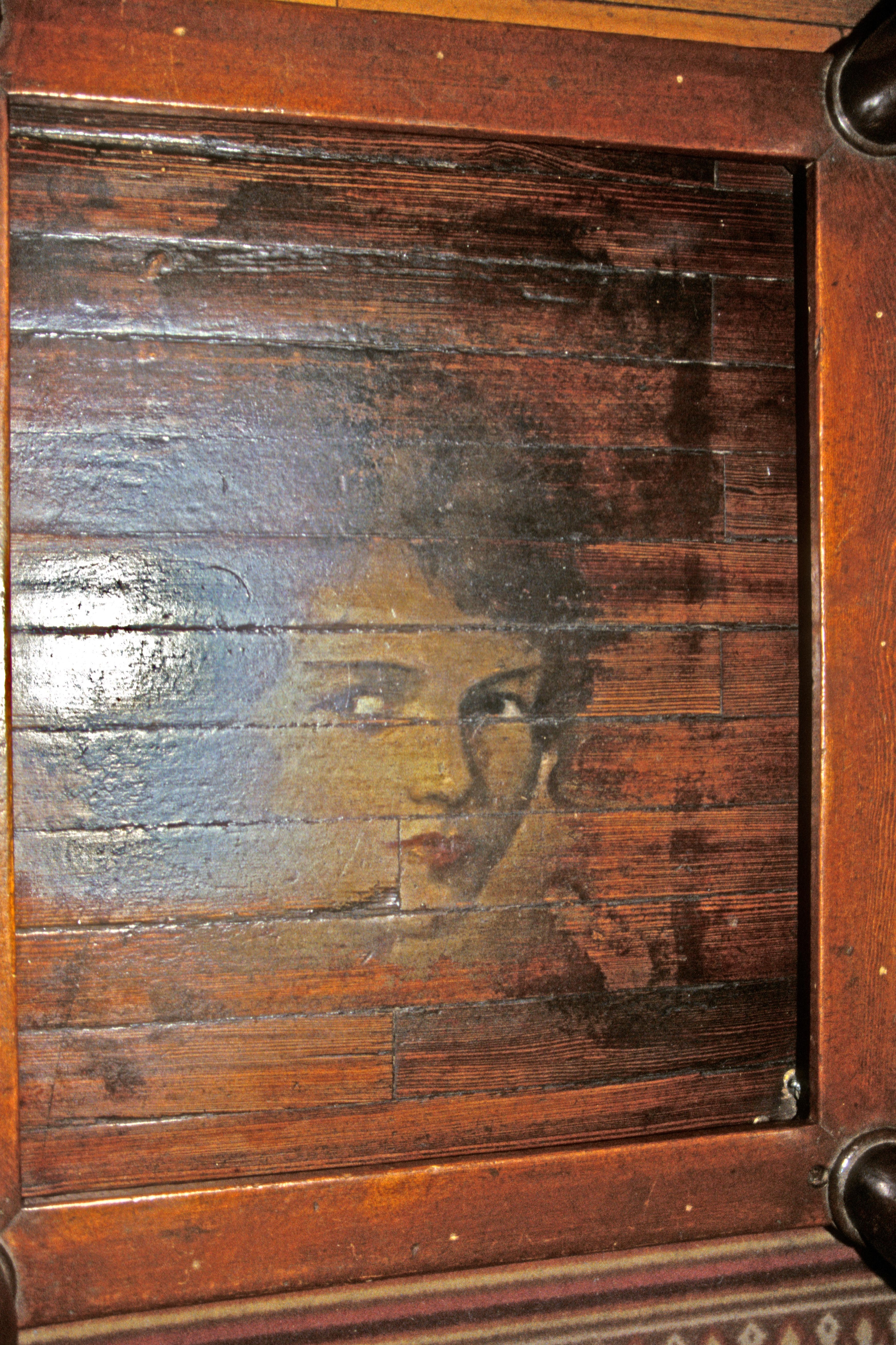 IN 1936 A STAFF ARTIST FROM THE DENVER POST PAINTED HIS WIFE'S FACE ON THE BARROOM FLOOR FOR WHICH A WELL- KNOWN BALLAD, "THE FACE ON THE BAR ROOM FLOOR" WAS COMPOSED. HERNDON DAVIS WAS THE ARTIST AND HE GOT INTO A FIGHT WITH THE DIRECTOR OF THE PROJECT AND EITHER QUITE OR WAS FIRED BUT NOT BEFORE PAINTING HIS WIFE'S PICTURE Painted in 1936 by Herndon Davis without a copyright notice, thus in the public domain.